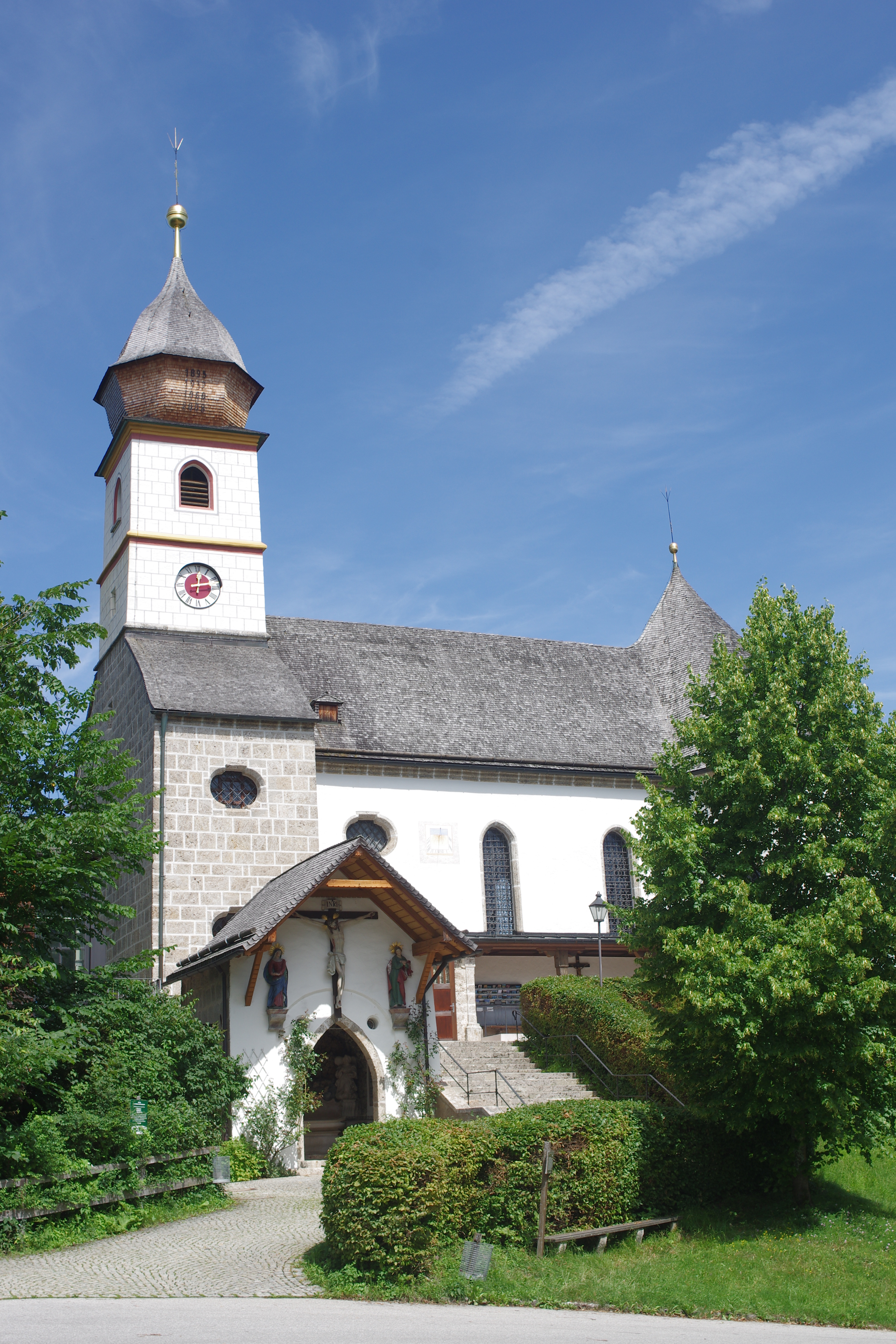 Church of monastery Maria Eck in Siegsdorf.